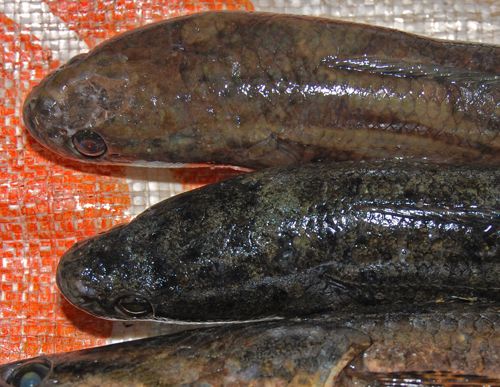 Comparison of Channa striata (upper) and C. lucius (lower), dorsal view of head and front part of the body. From Mentaya Hulu, Central Kalimantan, Indonesia.